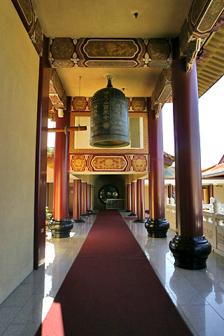 Bell and arcade at Hsi Lai Temple. In the San Gabriel Valley of Southern California.